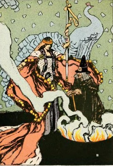 Illustrations from the 1913 play Snow White and the Seven Dwarfs